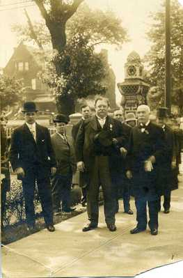 Rodef Shalom Temple. Visit of President Taft in 1906